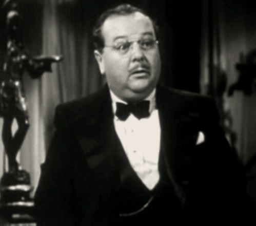 Lloyd Corrigan in The Chase - cropped screenshot